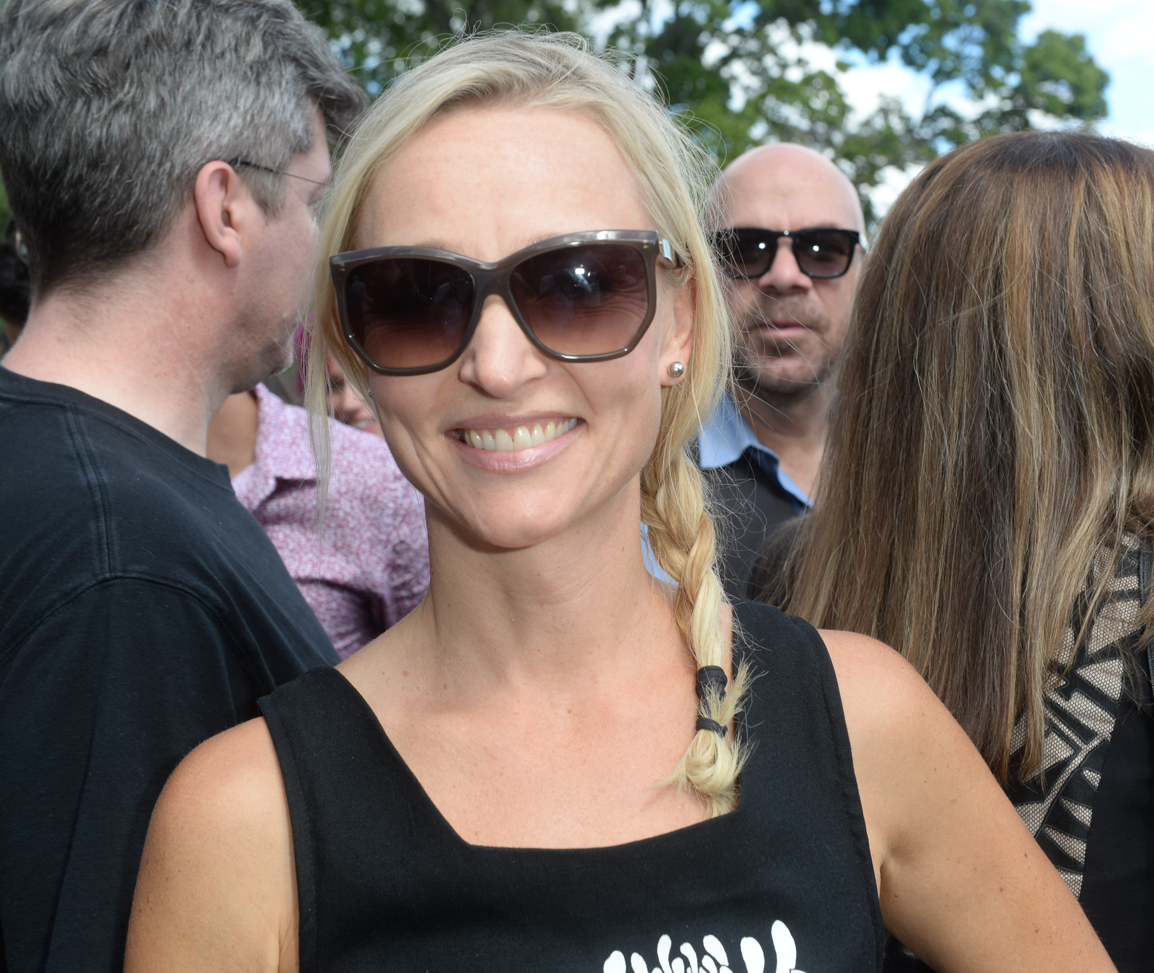 Actor Kari Matchett. Photo: Tom Sandler Photography.